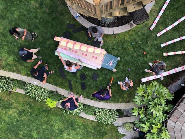 Birds-eye view of the Xtreme round of the 2020 Wile Cup croquet championship.